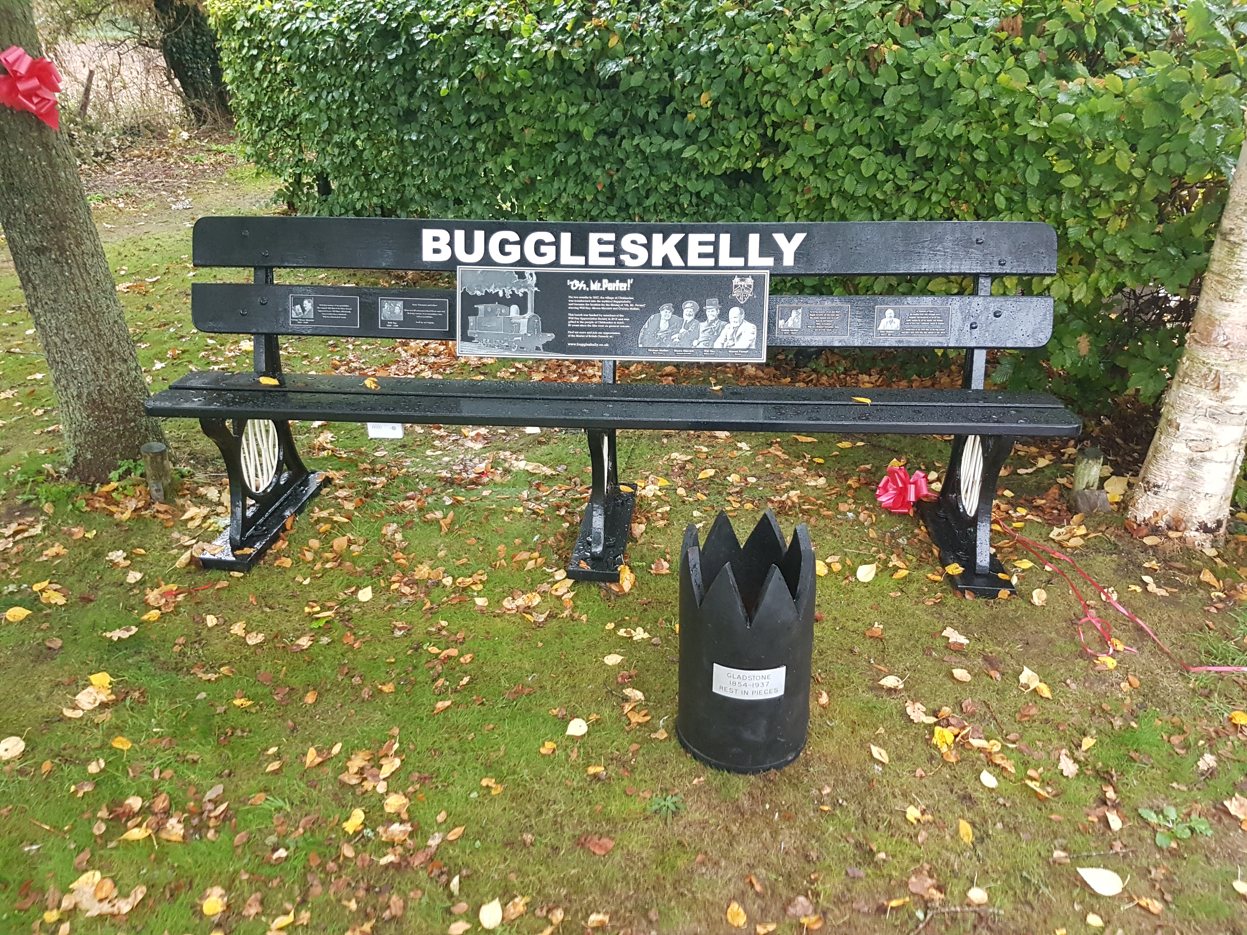 The Will Hay Appreciation Society's 'Buggleskelly' bench in memory of Will Hay and his co-stars, unveiled in Cliddesden, Hampshire on Sunday 14th October 2018.